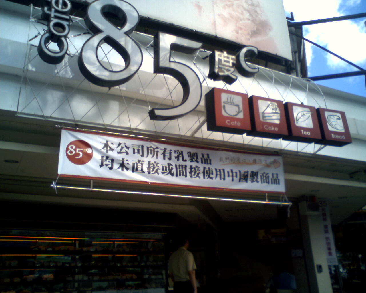 During the Chinese contaminated milk powder incident, this Taiwanese store has a notice saying: "None of our dairy products were directly or indirectly made using China-made products"